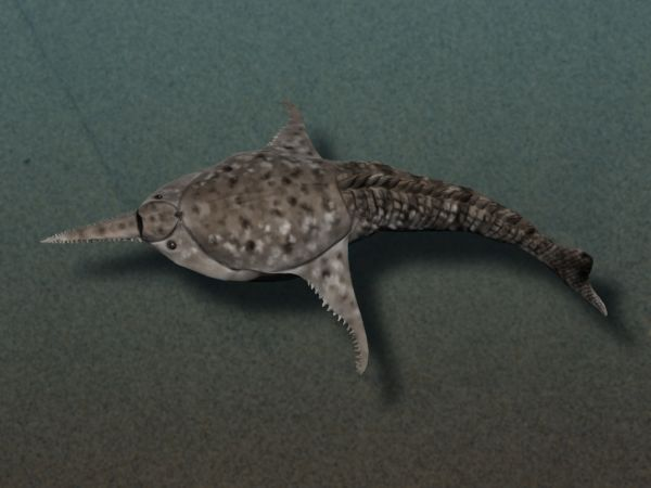 Doryaspis